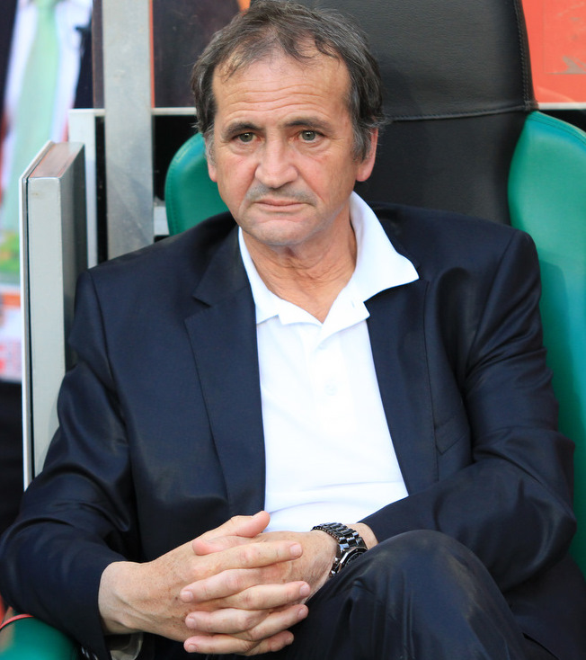 Bruno Bini coaching France in the 2011 FIFA Women's World Cup